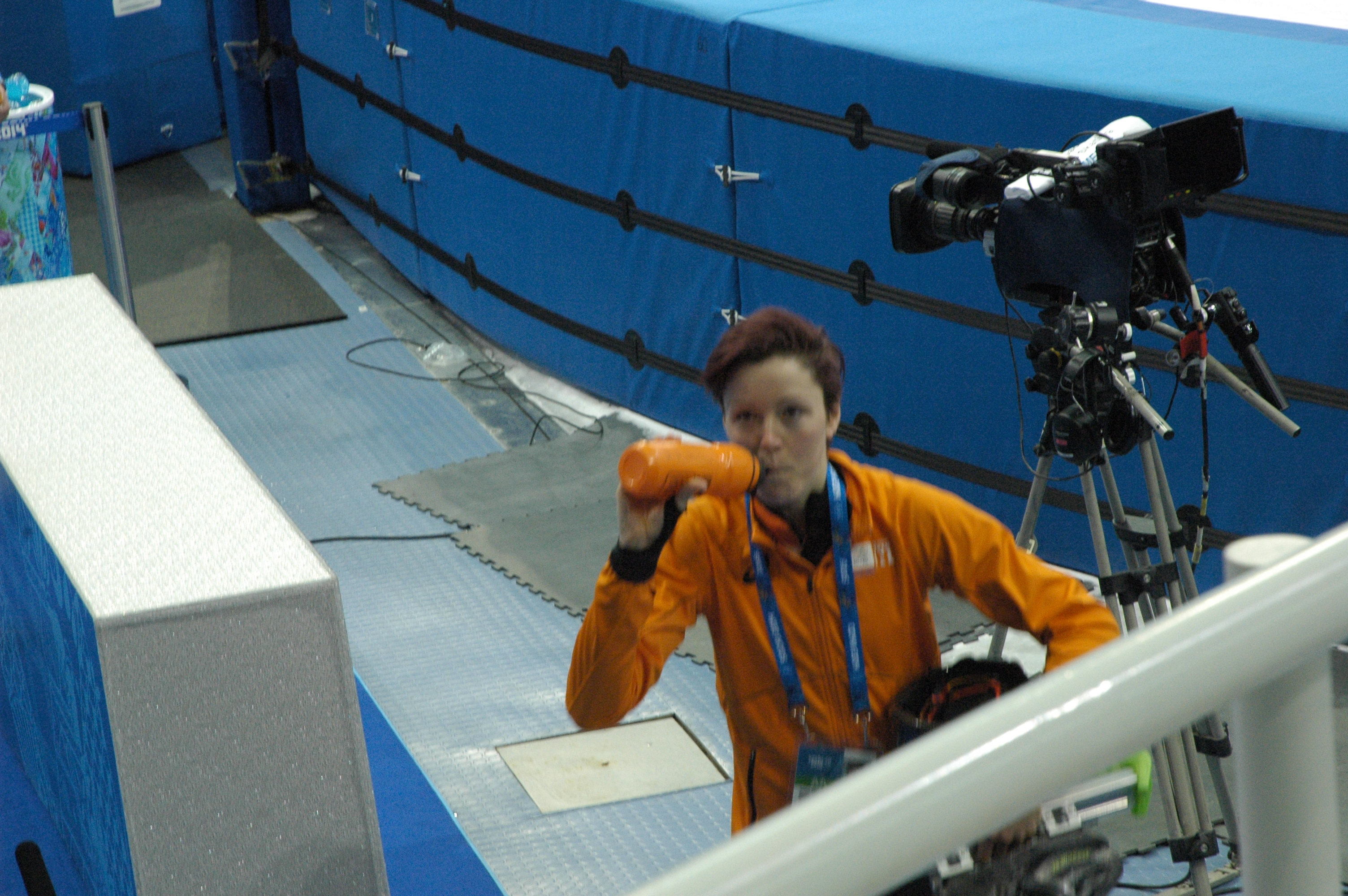 Short track speed skating training 17 February, 2014 Winter Olympics